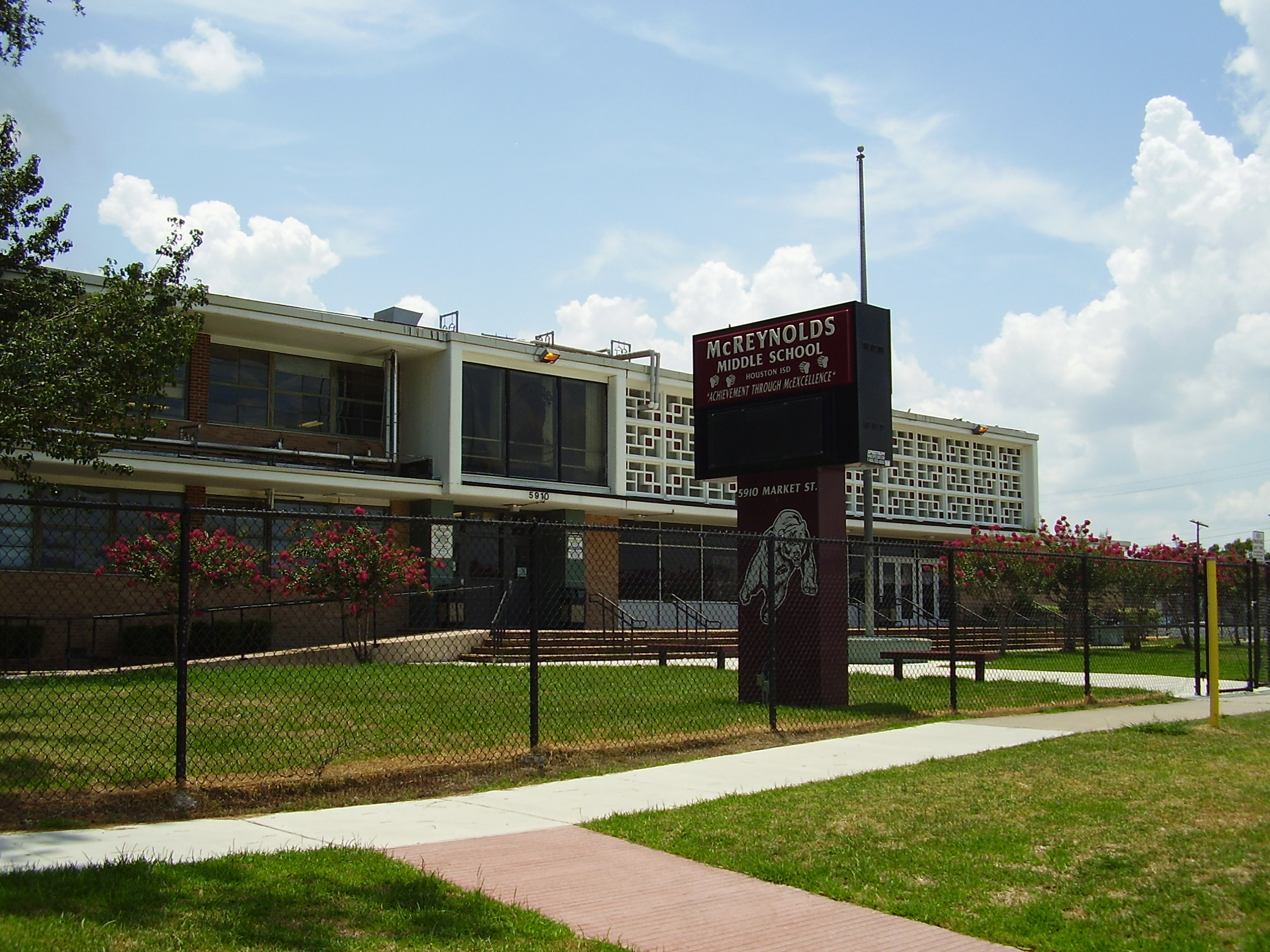 John L. McReynolds Middle School